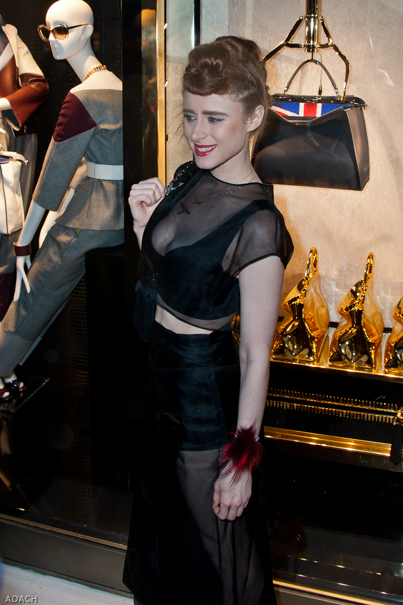 Canadian singer Kiesza at event to mark the opening of new Fendi store in London on May 1, 2014.